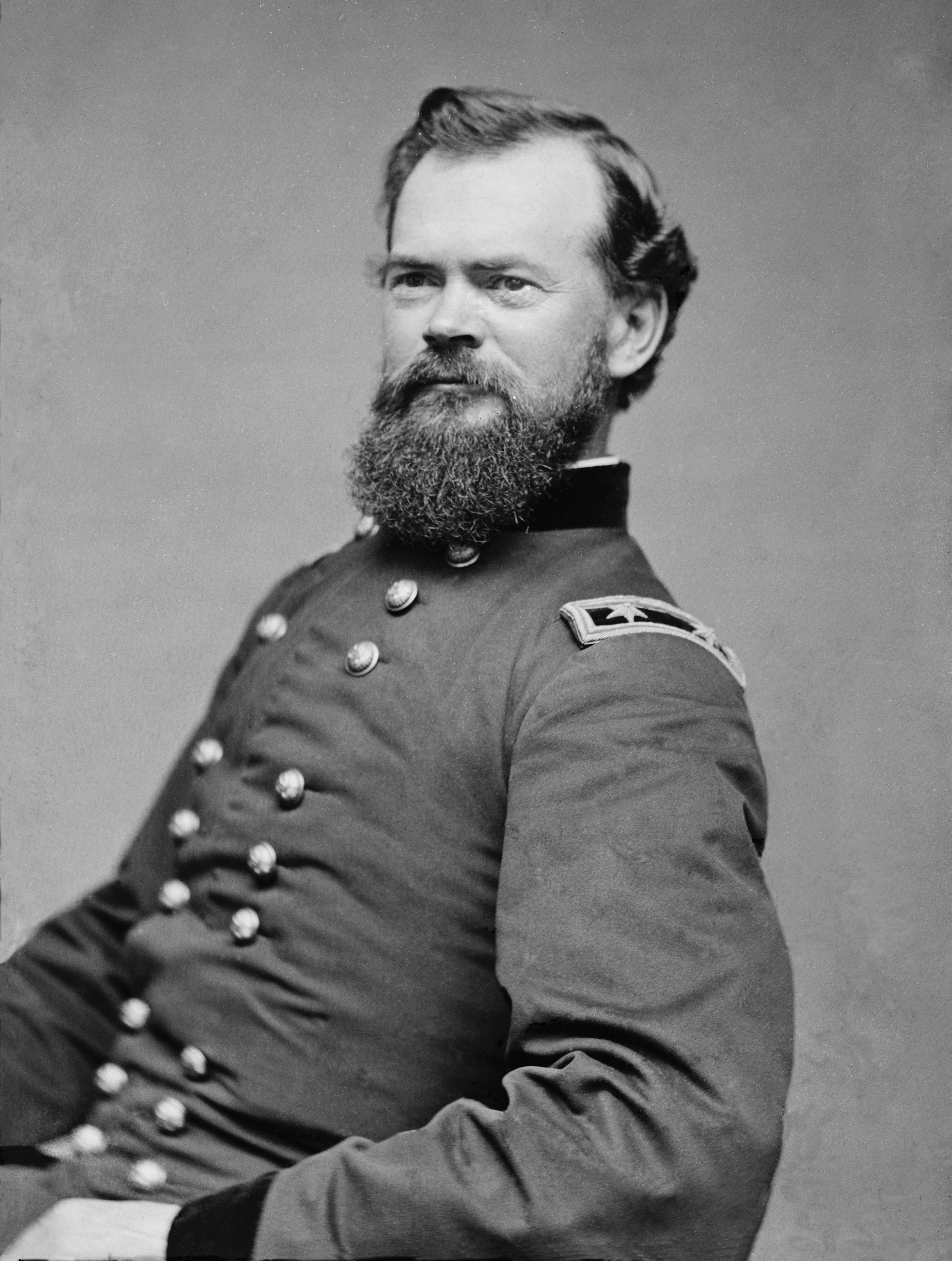 James Birdseye McPherson (1828–1864) was a Major General in the Union Army during the American Civil War. He was killed at the Battle of Atlanta, the second highest ranking Union officer killed during the war